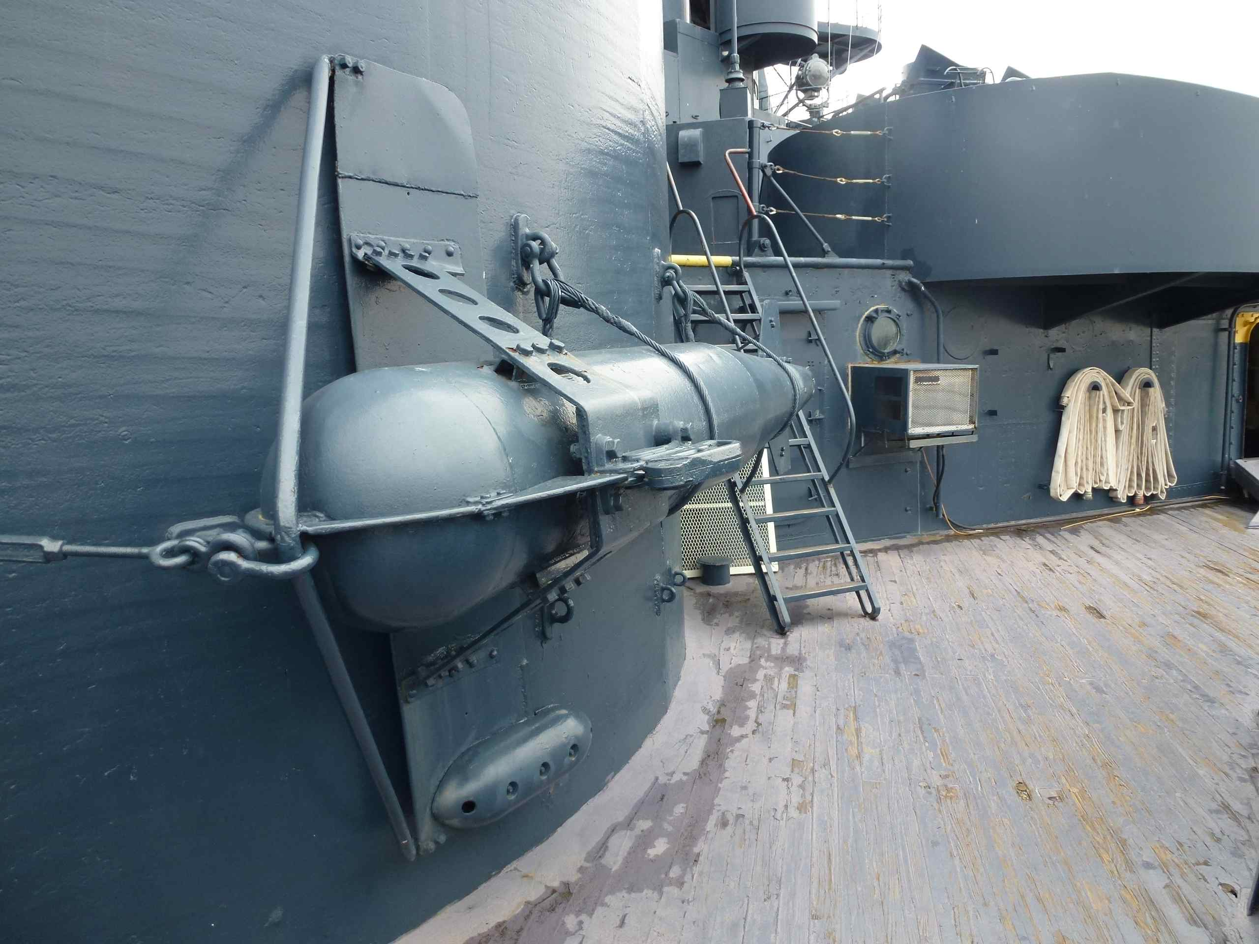 Paravane on USS Texas in San Jacinto State Park, near Houston Texas